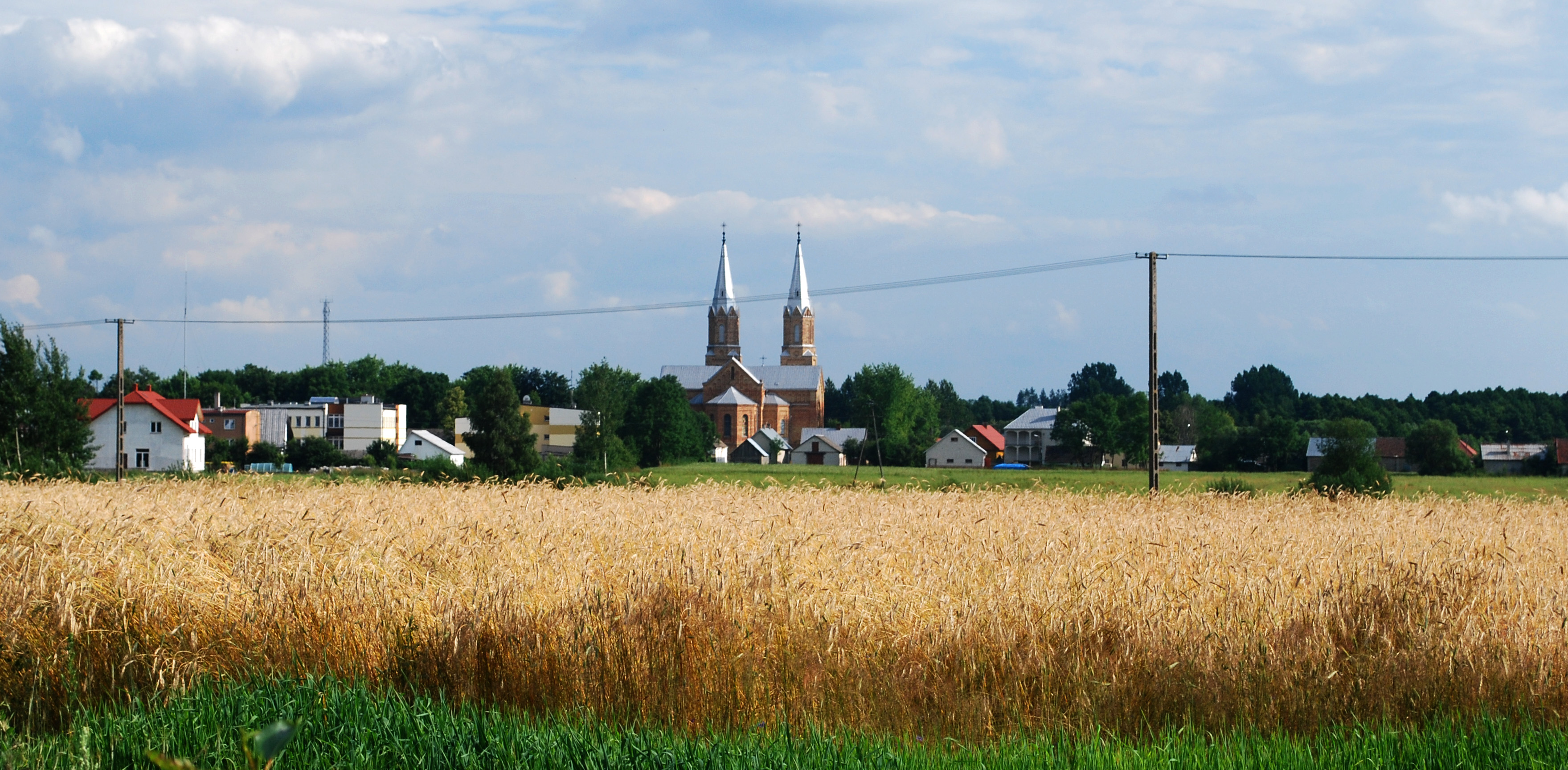 This photo from Podlaskie Voievodeship was taken during Polish Wikiexpedition 2009 set up by Wikimedia Polska Association. The making of this document was supported by Wikimedia Polska. Panorama Janowa.